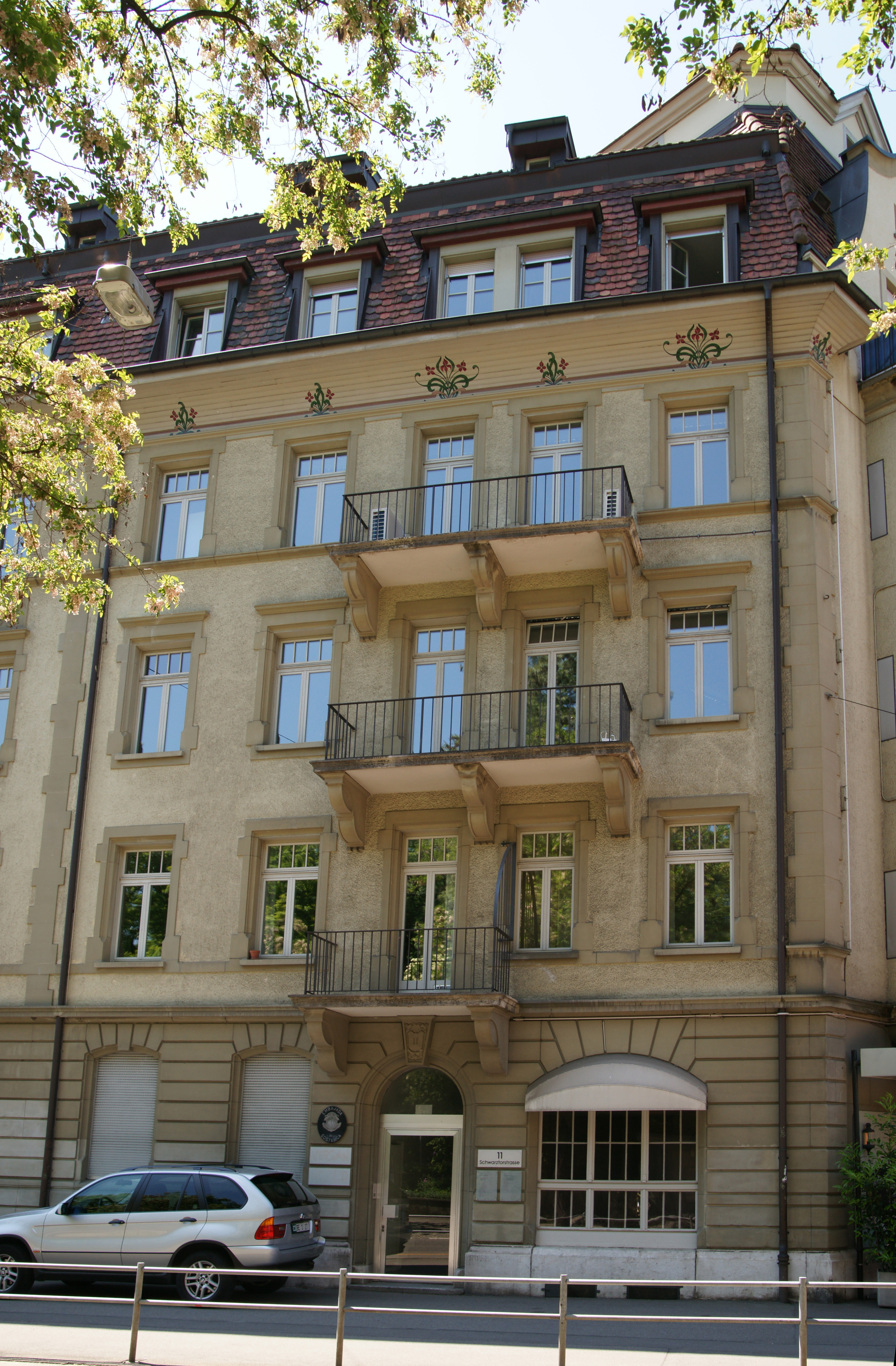 Embassy of Costa Rica on Schwarztorstrasse 11, Bern, Switzerland.